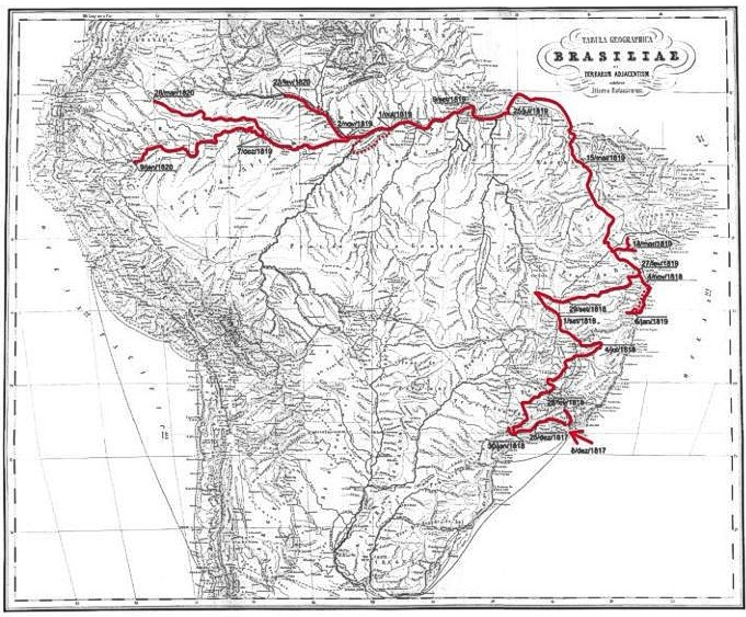 Map of Brazil showing 1817-20 route followed by von Martius and von Spix